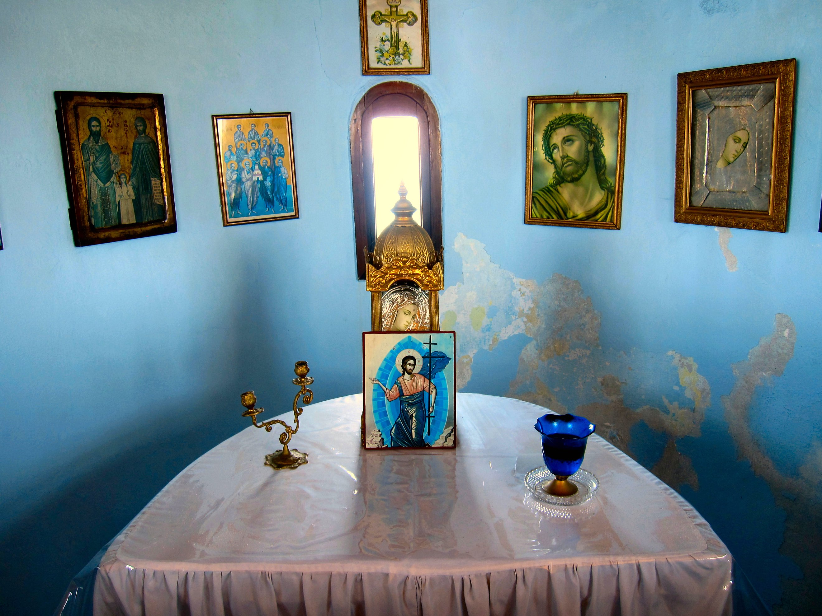 Taken in a little Greek Orthodox church in Limenas on the Greek Island of Thassos.